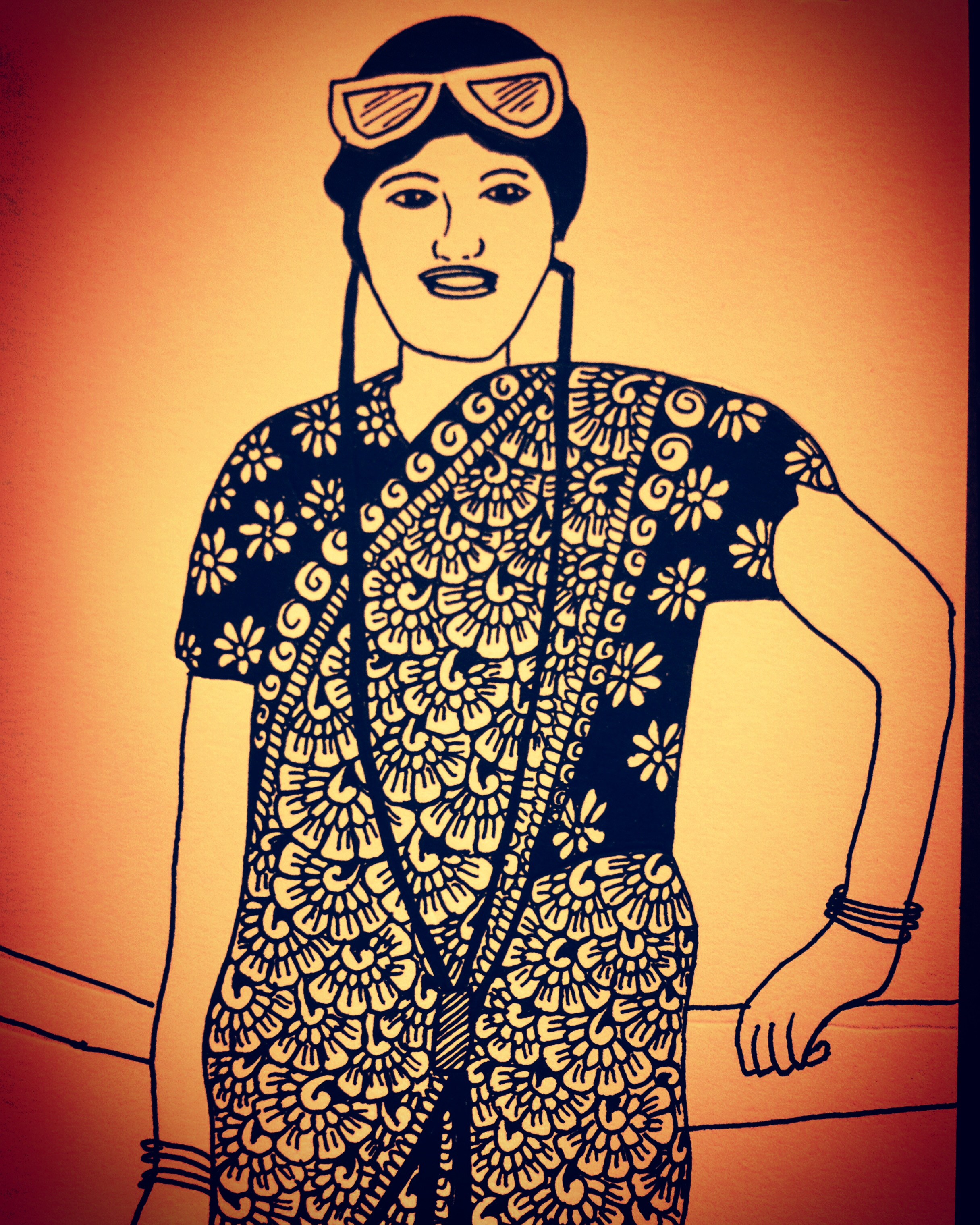 Doodled portrait of Sarla Thakral by Kirthi Jayakumar